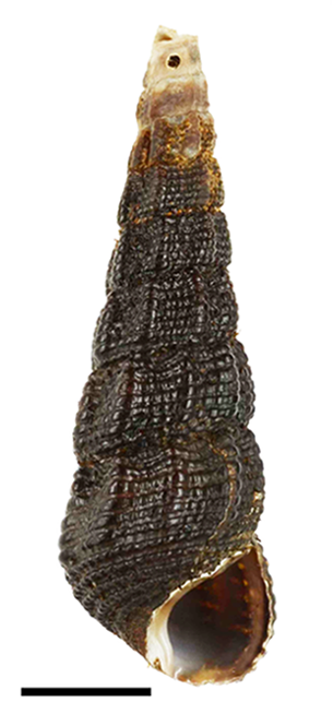 Photo of an apertural view of a shell of Tylomelania towutica. Scale bar is 10 mm.